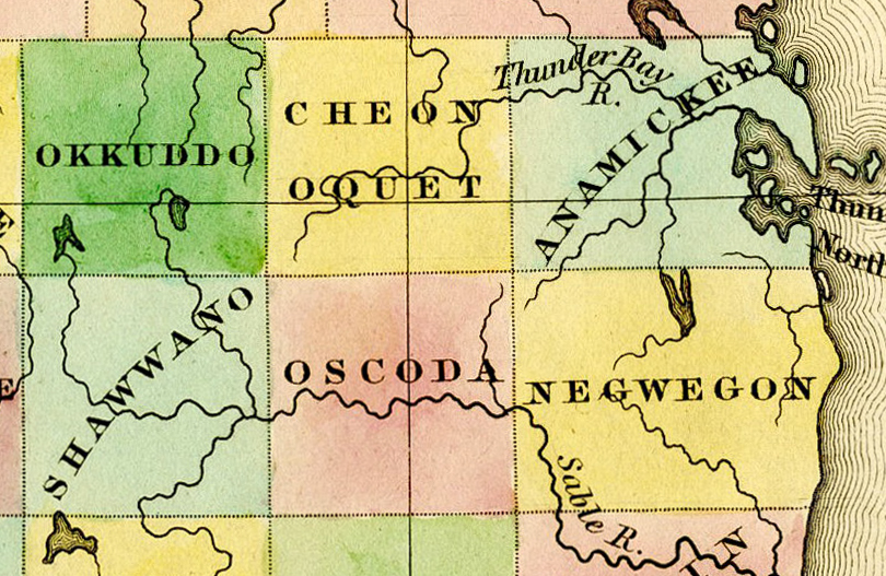 Detail of A New Map of Michigan With Its Canals, Roads & Distances by H.S. Tanner, 1842, showing: Okkuddo County (later renamed Otsego County) Cheonoquet County (later renamed Montmorency County) Anamickee County (later renamed Alpena County) Shawono County (misspelled "Shawwano") (later renamed Crawford County) Oscoda County Negwegon County (later renamed Alcona County)